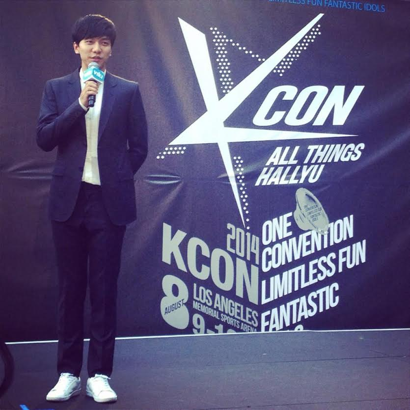 KCON music festival 2014, red carpet, Lee Seung Gi.